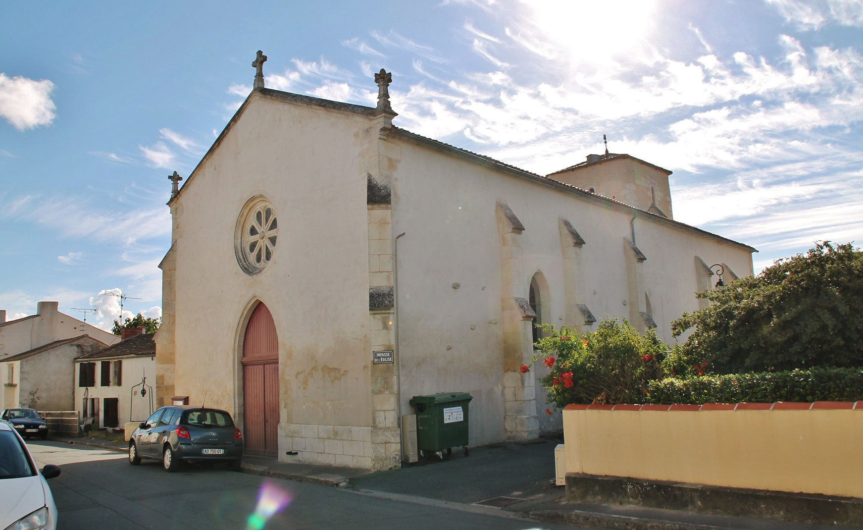 L'église